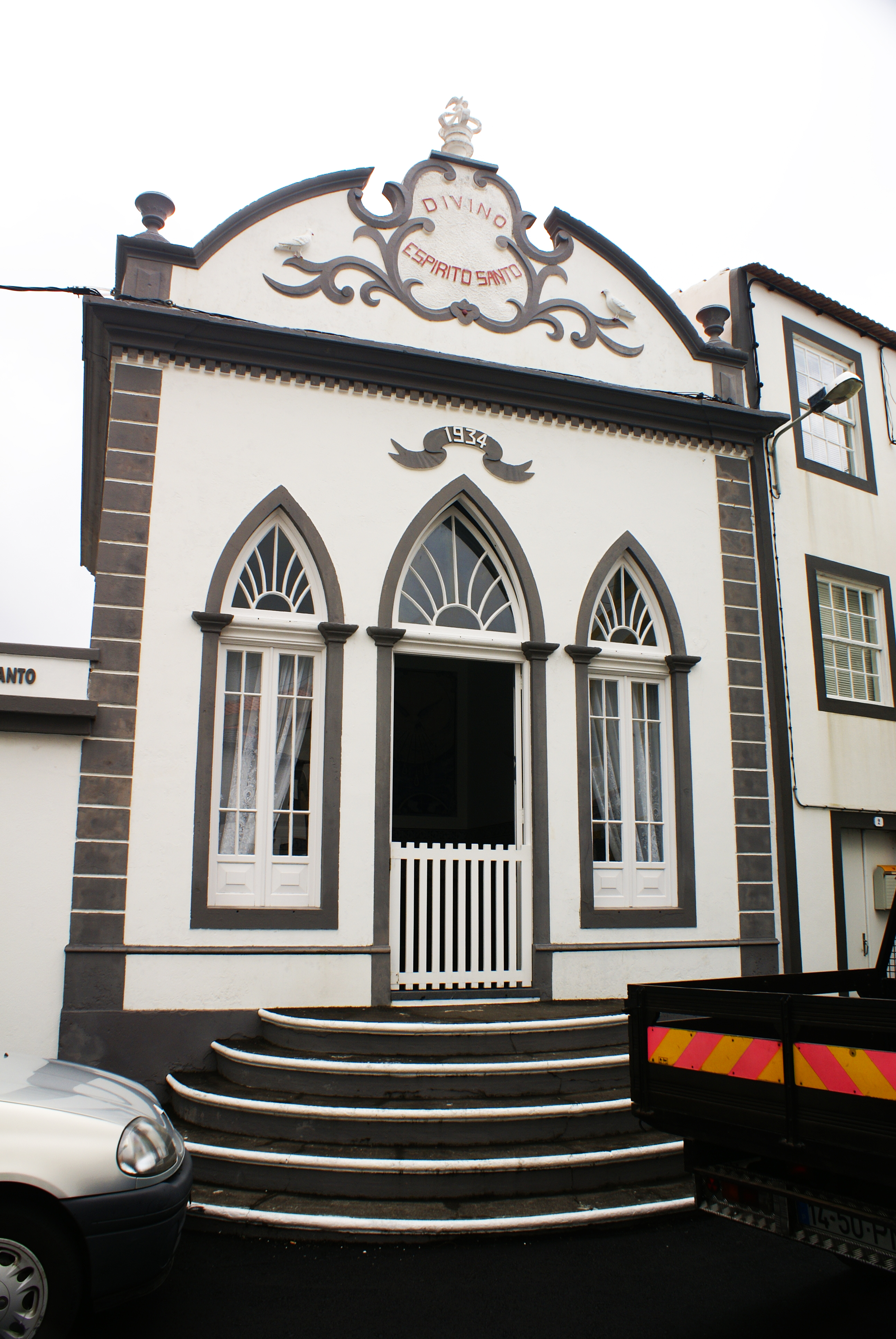 Império do Espírito Santo de Santa Cruz das Ribeiras, concelho das Lajes do Pico, ilha do Pico, Açores, Portugal